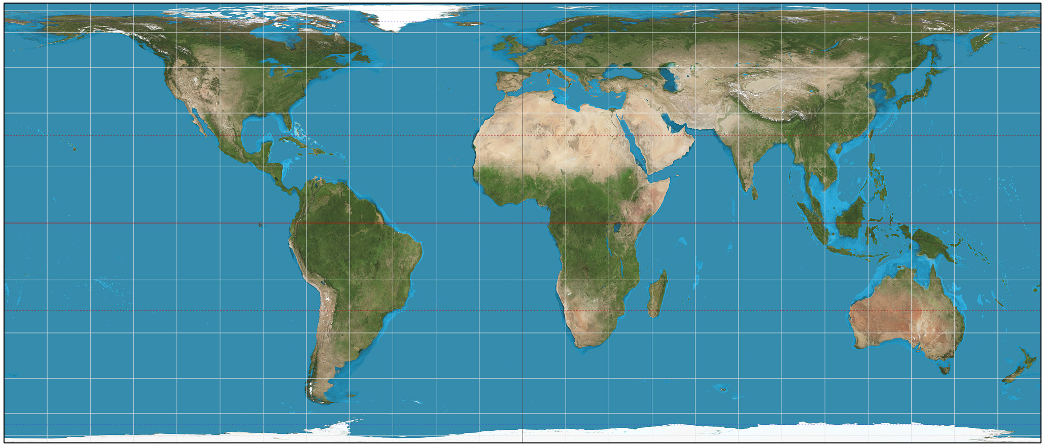 The world on Behrmann projection. 15° graticule. Imagery is a derivative of NASA’s Blue Marble summer month composite with oceans lightened to enhance legibility and contrast. Image created with the Geocart map projection software.